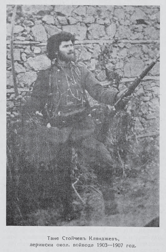 Portrait of IMARO member Tane Stoychev from Gornichevo